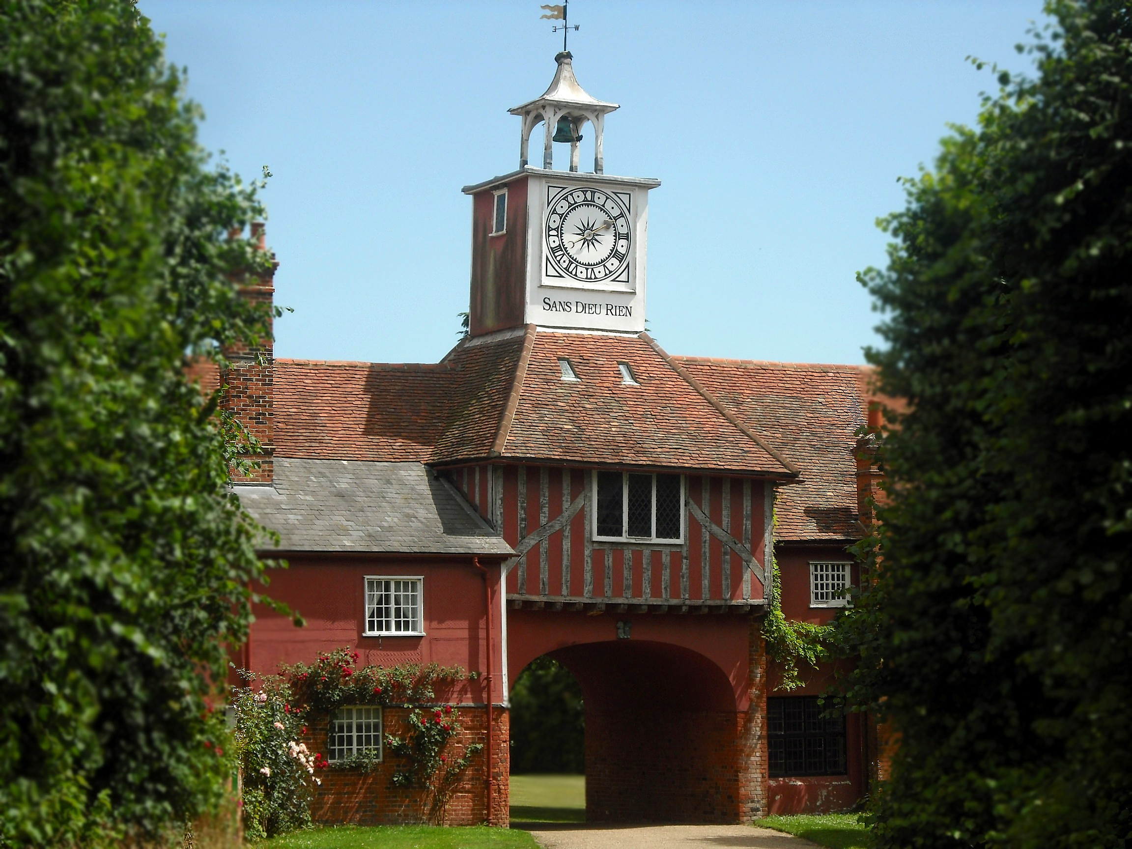 The entrance gate with its one-handed clock. Below is written the French motto of the Lords Petre, "Sans Dieu rien", which means "without god nothing".